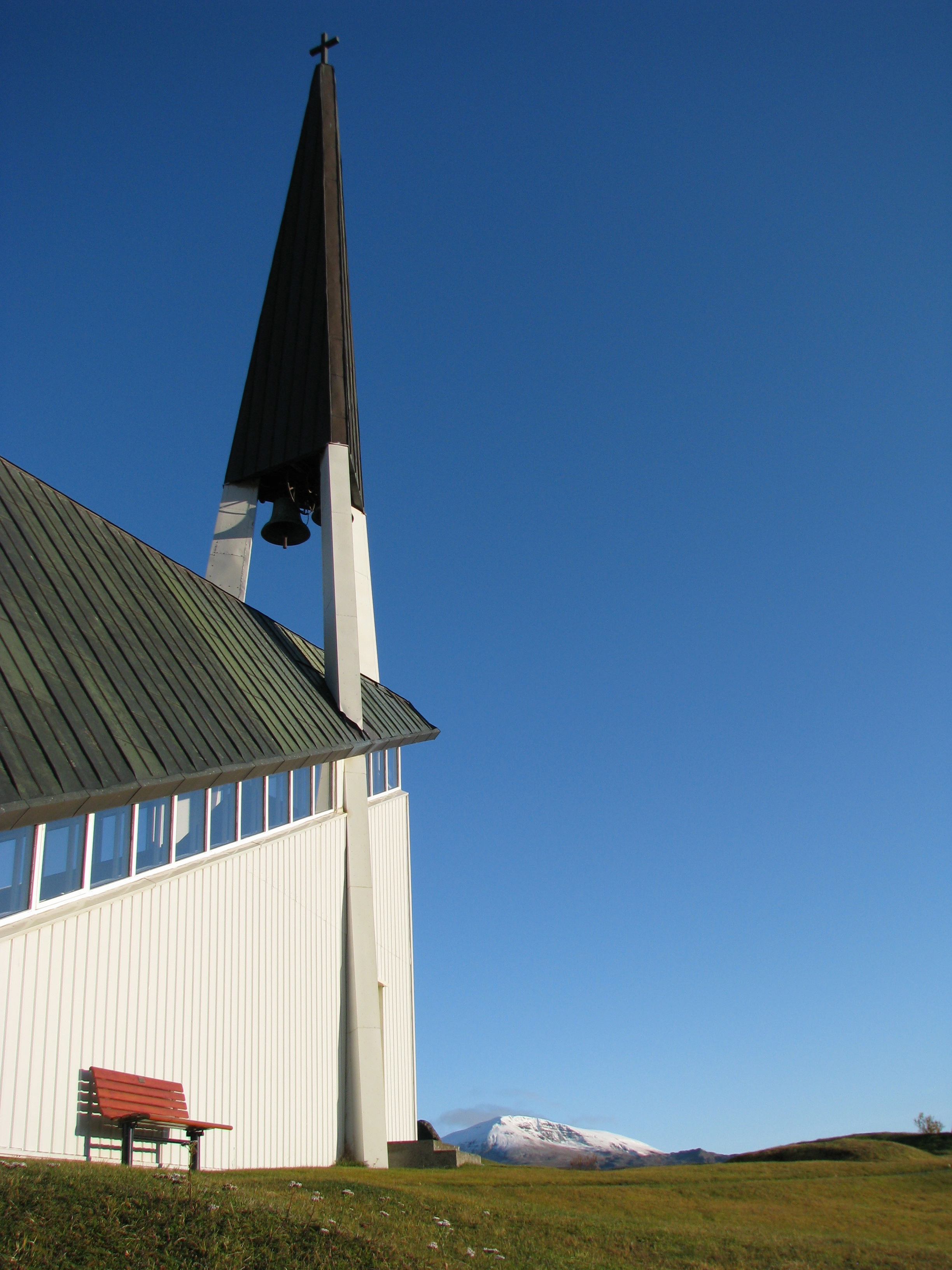 The church of Mosfell, a farm not far from Icelands capital Reykjavik.